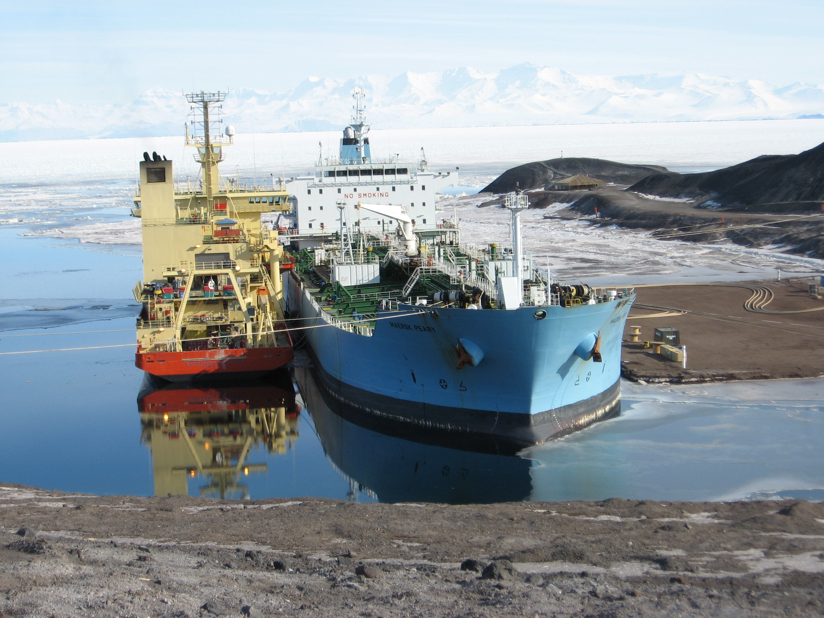 MCMURDO STATION, Antarctica (Feb. 10, 2013) The Military Sealift Command-chartered tanker ship MV Maersk Peary, provides fuel to the National Science Foundation-chartered scientific-research vessel R/V Nathanial B. Palmer at McMurdo Station ice pier. Maersk Peary is in Antarctica offloading fuel in support of the annual Operation Deep Freeze Antarctica resupply mission and will supply 100 percent of fuel needed for the upcoming year. (U.S. Navy photo by Larry Larsson/Released) 130210-N-WD133-036